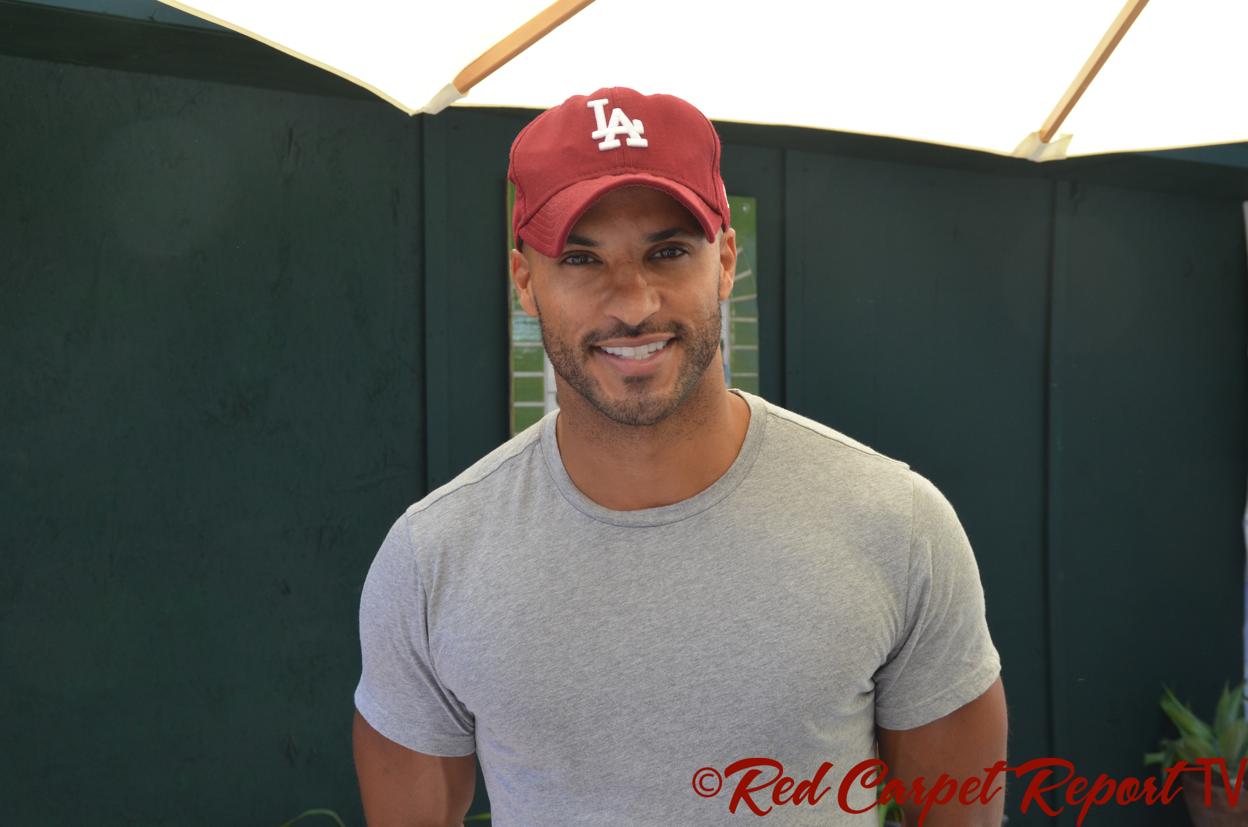 Actor Ricky Whittle at the Children Mending Hearts Empathy Rocks: A Spring into Summer Bash 6th Annual Fundraiser on June 14, 2014